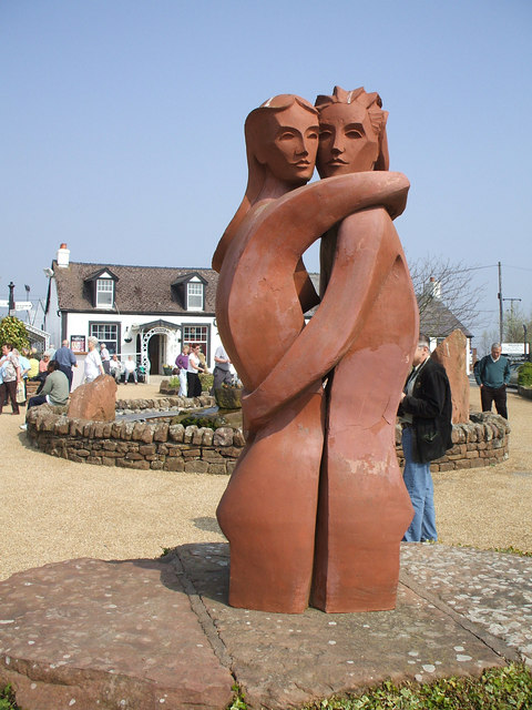 Statue at Gretna Green This is the Statue of the Lovers at Gretna Green, It stands out well against the blue sky.